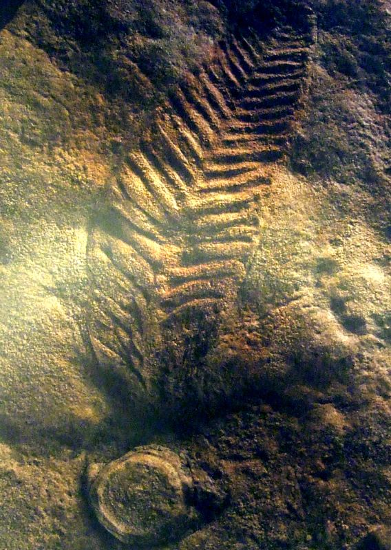 550 million year old fossil - a cast of Charniodiscus from Australia in the Sedgwick Museum in Cambridge. Charniodiscus also been discovered in Canada, S Africa, Australia.........Named from Charnwood Forest Leicestershire. This was discovered in the Flinders Range in Australia by Jim Gehling, and it was later stolen by fossil looters and turned up in Japan. Fortunately the Japanese government re-patriated the specimen and it is now in a museum in Australia!